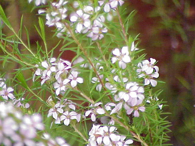 Species: Coleonema pulchrum Family: Rutaceae Image No. 1